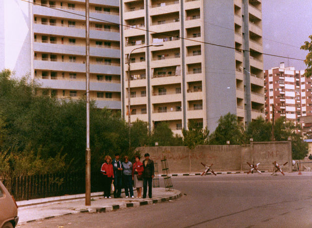 A permanent residence of Soviet military advisors in Damascus, Syria, the so called “Blue House.”